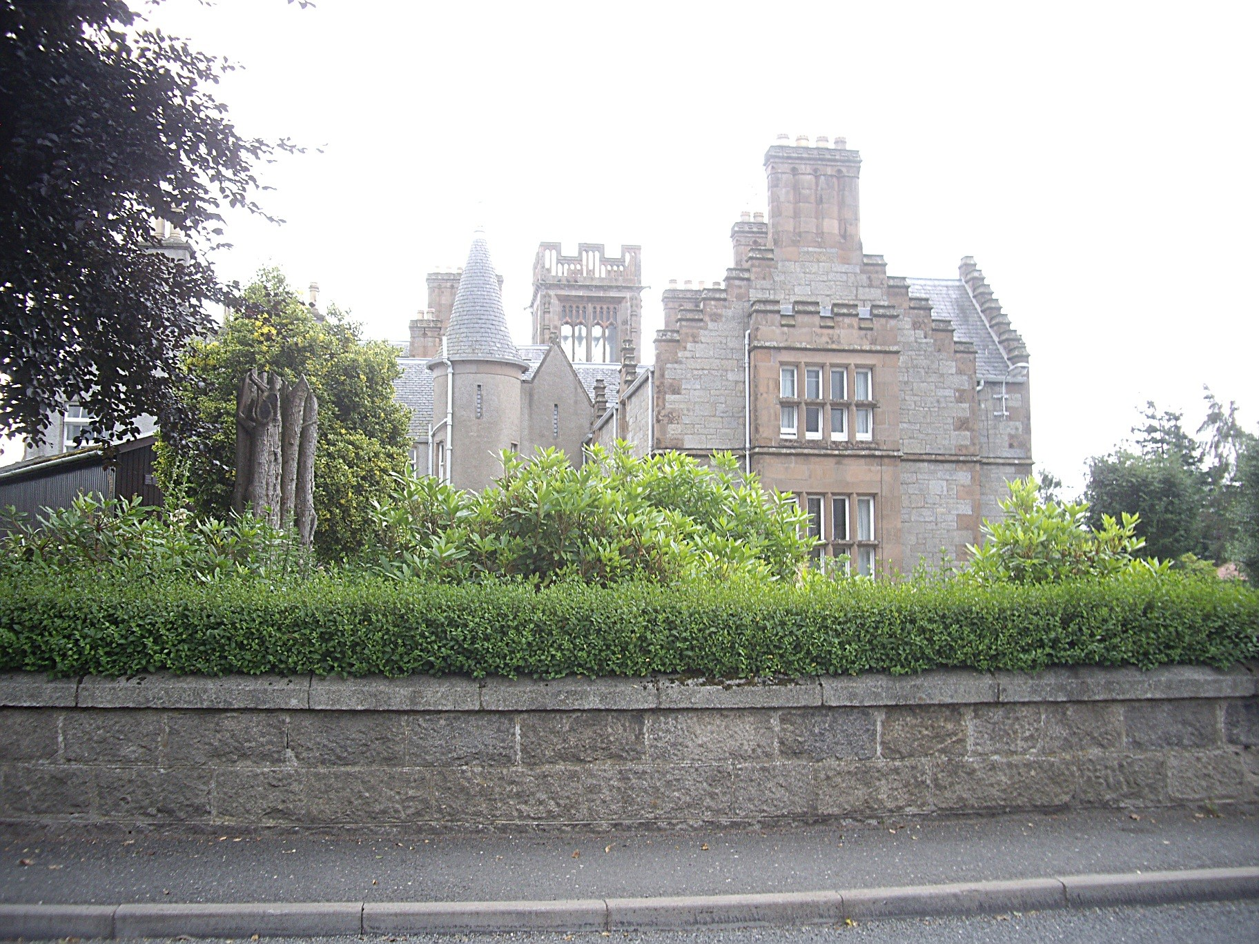 Alexander Scott's Hospital